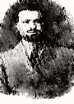 Iraqi former Prime-Minister Jamil Al-Madfai